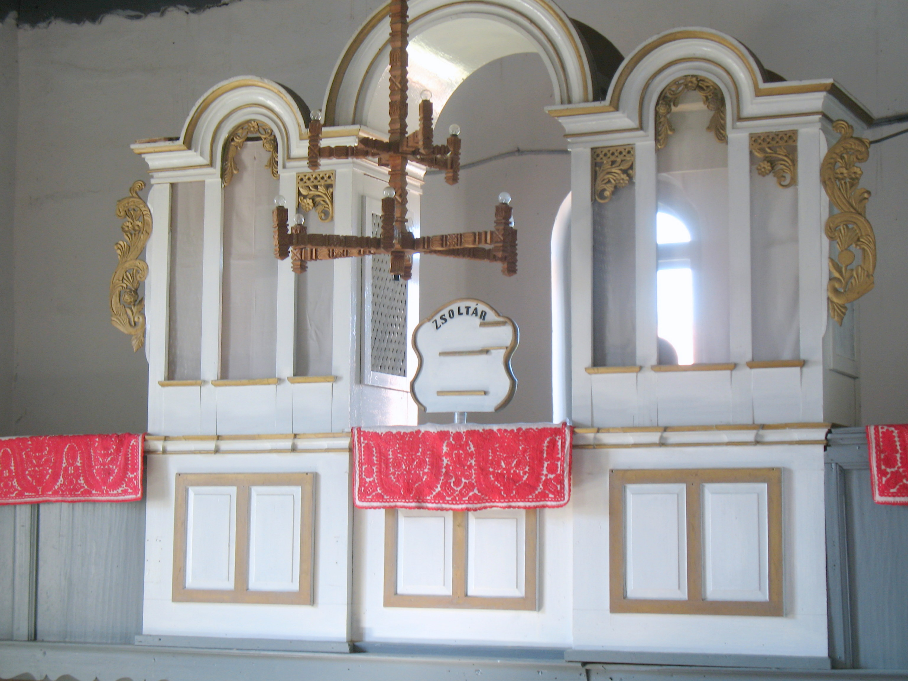 Unitarian church in Filiaș, Harghita county, Romania